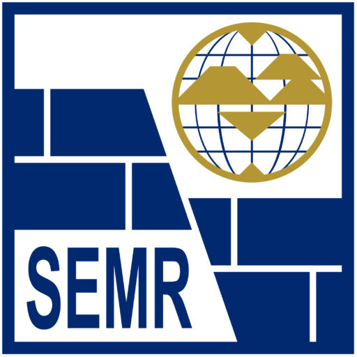 Logotipo de la Sociedad Española de Mecánica de Rocas desde febrero de 2018